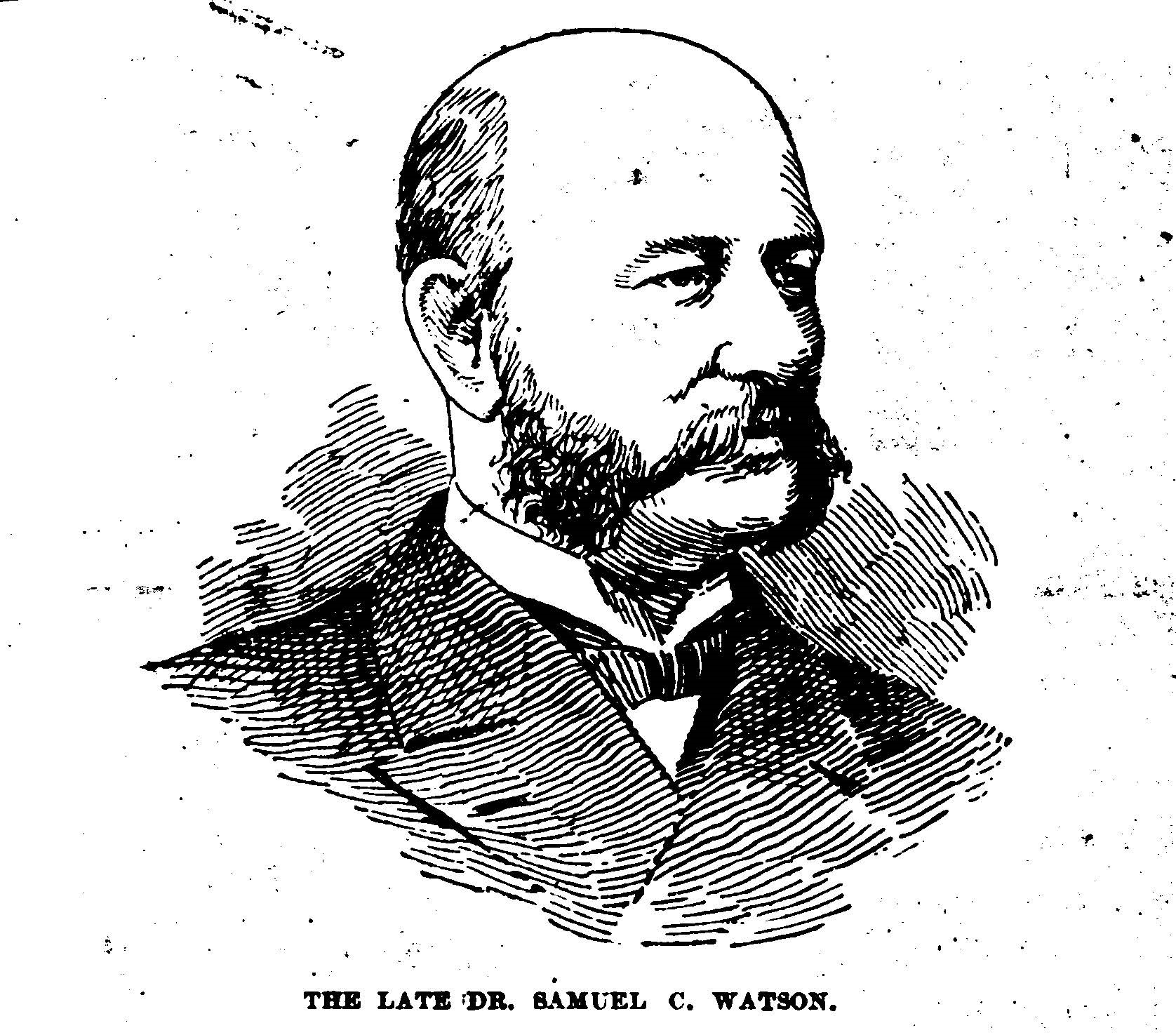 Newspaper line drawing of Dr. Samuel C. Watson. Made from a real life photograph taken by Arthur and Philbric studio of Detroit. Published in the Detroit Plaindealer, March 18, 1892, following the death of Samuel C. Watson.